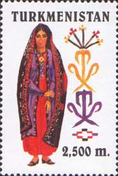 Traditional Costumes.